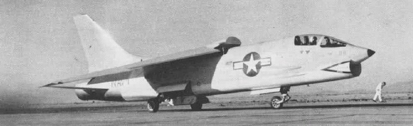 A Vought F8U-1 Crusader at Naval Air Station China Lake, California (USA), about to take off for the record Thompson Trophy flight in 1956. Piloted by Cdr. Windsor the Crusader reached a speed of 1640 km/h (1,019 mph). The Thompson Trophy race was one of the U.S. National Air Races of the heyday of early airplane racing in the 1930's. Established in 1929, the last race was held in 1961. The race was 10 miles (16.09 km) long with 50-ft (15-m) high pylons marking the turns, and emphasized low altitude flying and manoeuvrability at high speeds.